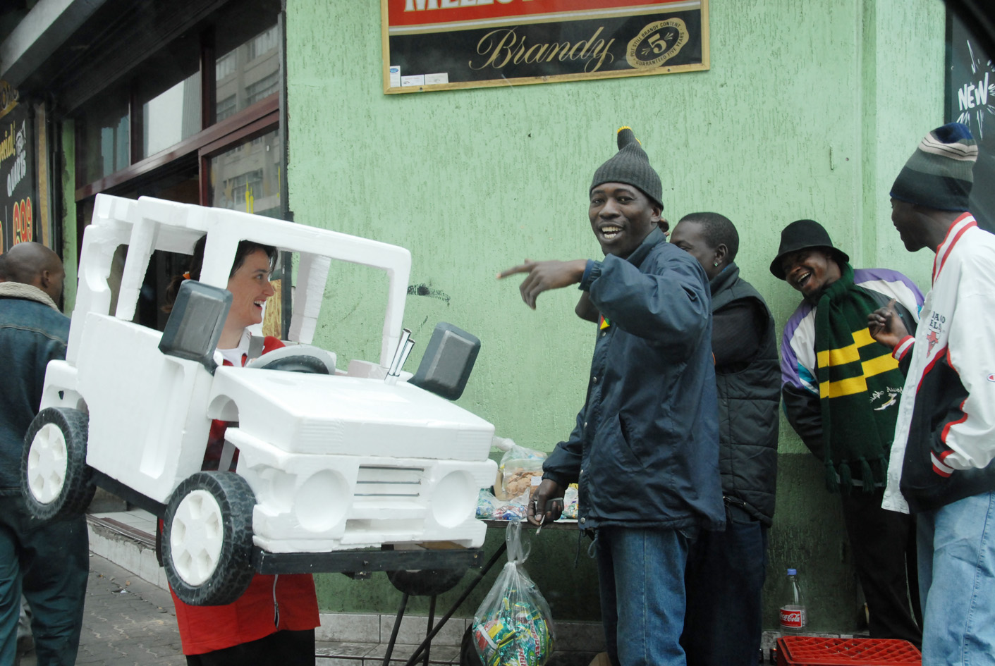 Performance Johannesburg Interventions by Steffi Weismann